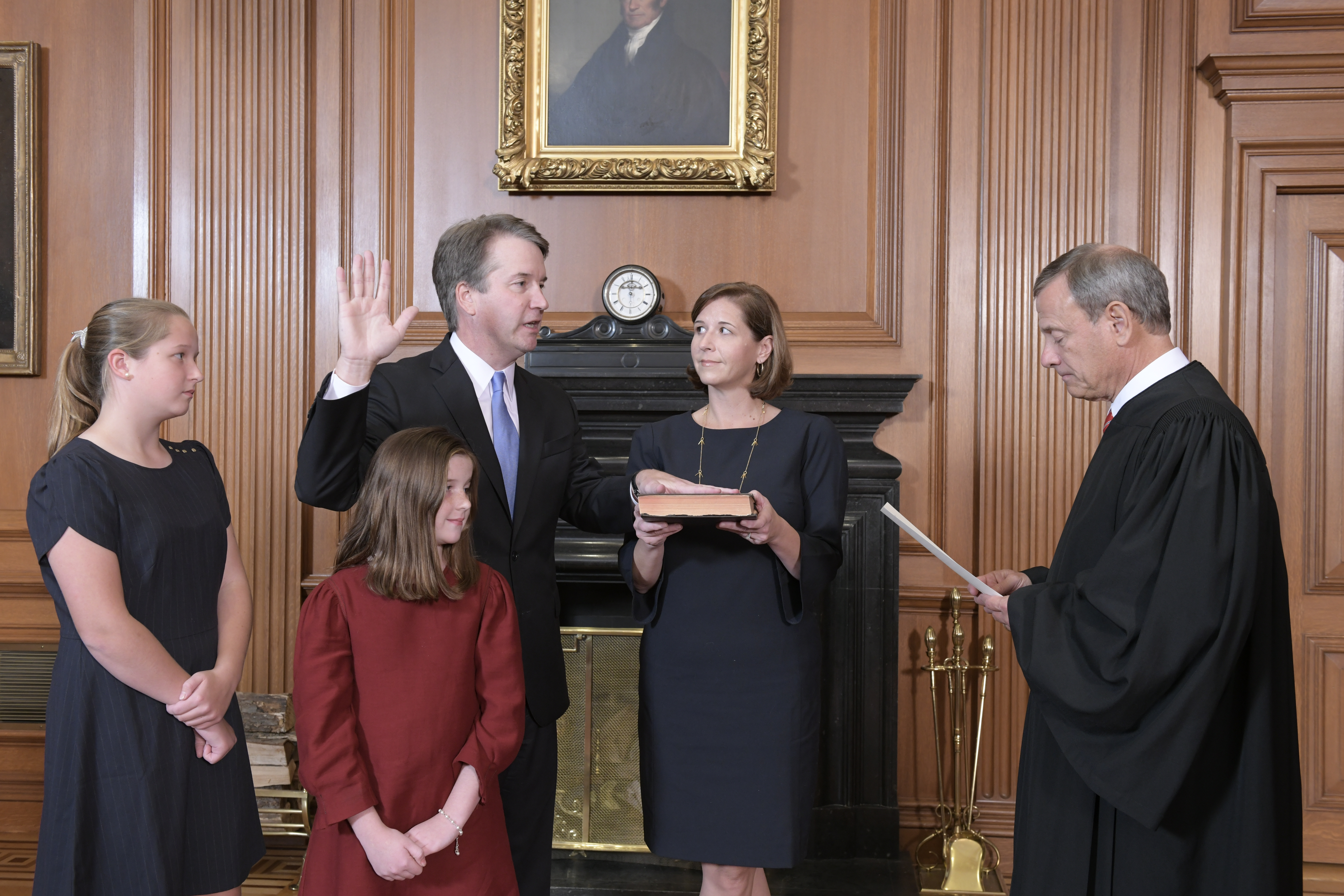 Chief Justice John G. Roberts, Jr., administers the Constitutional Oath to Judge Brett M. Kavanaugh in the Justices’ Conference Room, Supreme Court Building. Mrs. Ashley Kavanaugh holds the Bible.Credit: Fred Schilling, Collection of the Supreme Court of the United States.